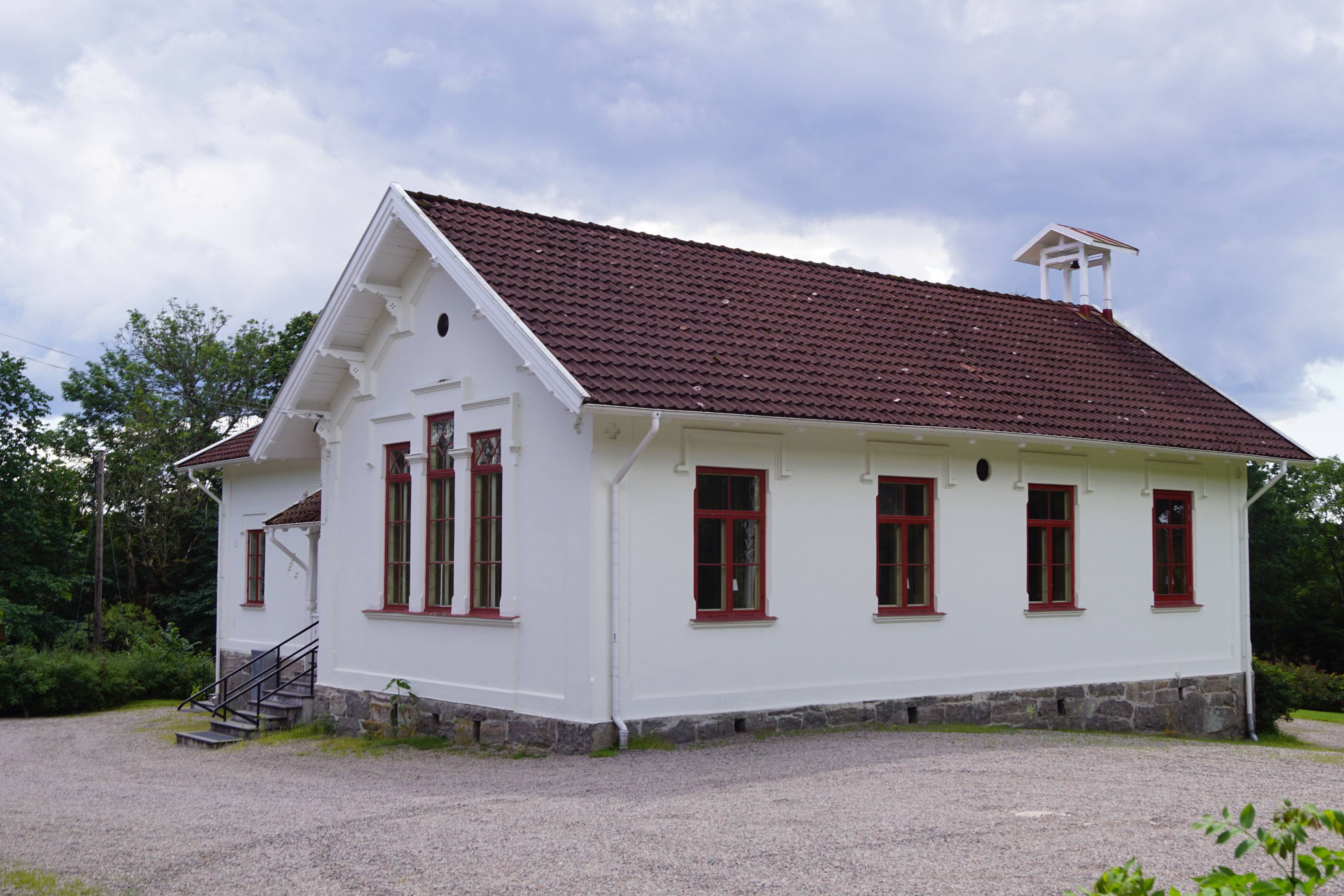 The school house in Kilanda, Ale Municipality, Sweden